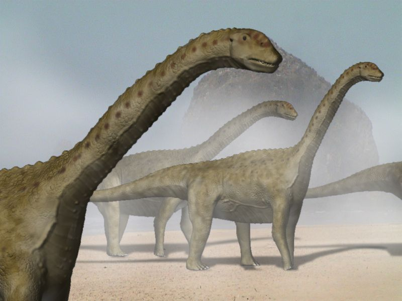 Camarasaurus supremus, a sauropod from the Late Jurassic of North America. Digital.